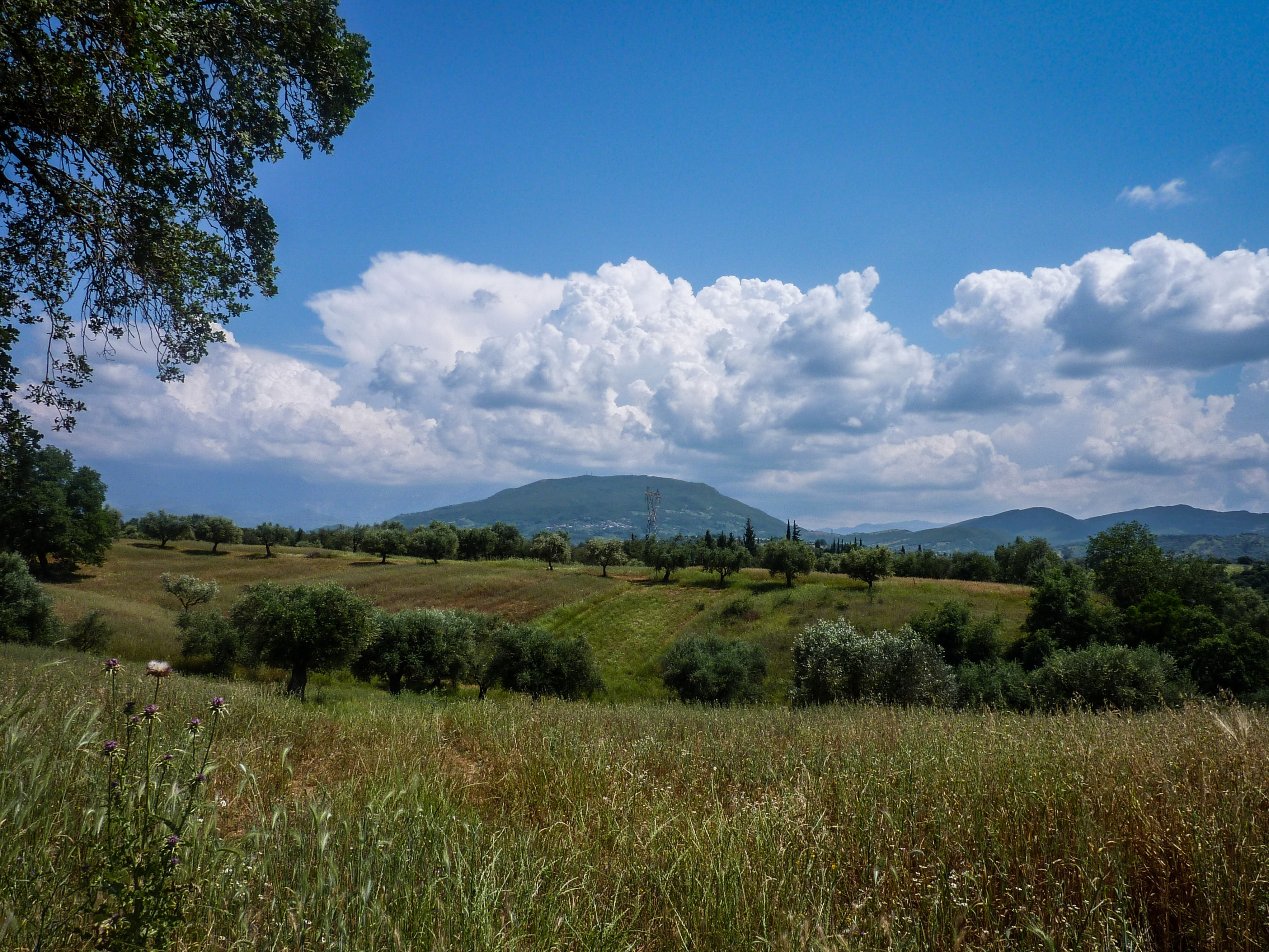 Kompovouni Mt. View from a place near Patras' Industrial Area, Achaia, Greece.